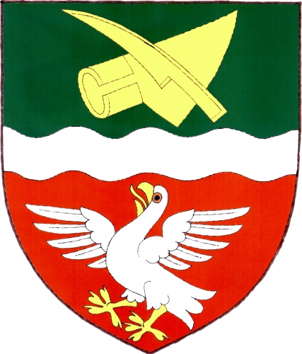 Coat of arms of Rájec-Jestřebí, Blansko District